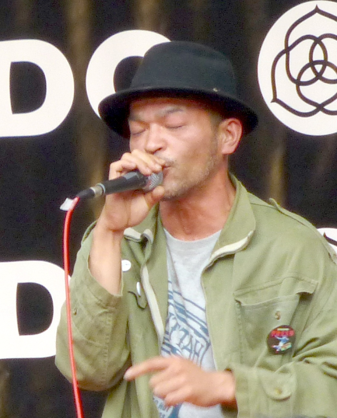 Robochu (stage name) is a Japanese hip hop artist from Osaka.